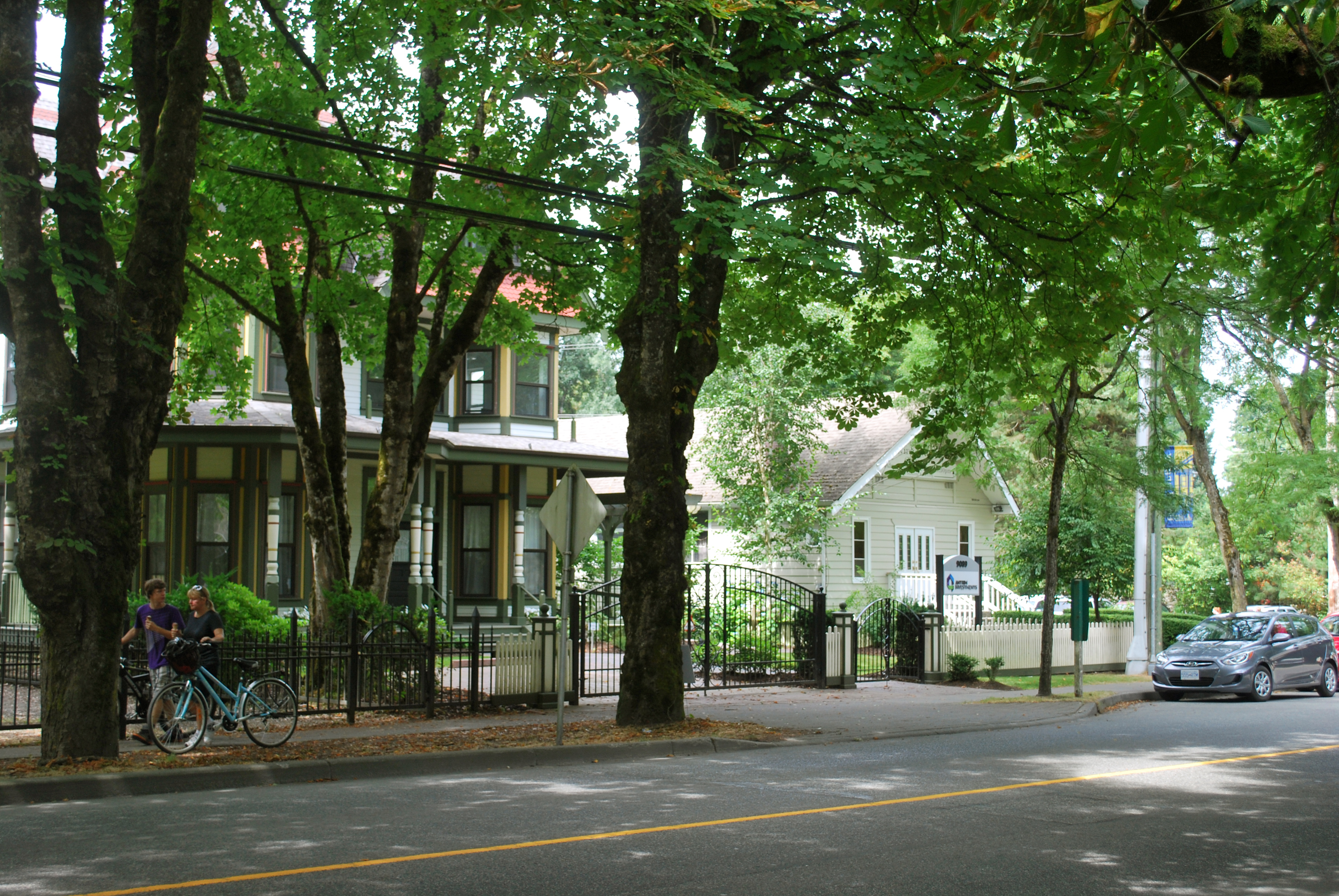 Horse Chestnut trees line Glover Road in Fort Langley, BC, with the Antrim Investments Building in the background.